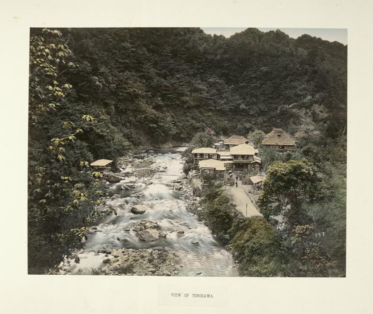 Digital ID: 110071. Kusakabe, Kimbei -- Photographer. 188-?-189-? Notes: Number in Negative, 957 Source: Japan. / Kimbei Kusakabe. ( Repository: The New York Public Library. Photography Collection, Miriam and Ira D. Wallach Division of Art, Prints and Photographs. See more information about and others at Persistent URL: Rights Info: No known copyright restrictions; may be subject to third party rights (for more information